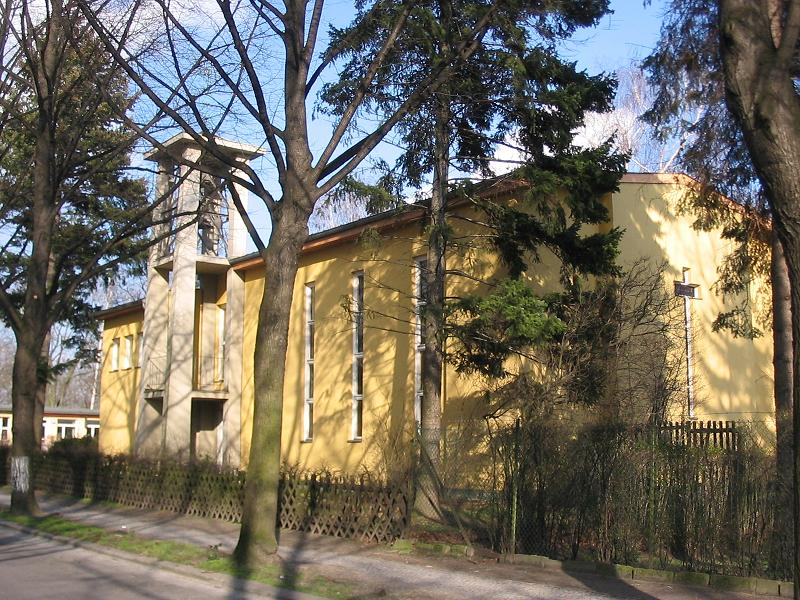 The Serbian Orthodox Church of the Holy Trinity (until 2008: Lutheran Zinzendorf Church) in Berlin-Tempelhof, Schwanheimer Straße 11, at corner with Rohrbeck- and Schaffhausener Straße. Named after Nikolaus Ludwig Zinzendorf.